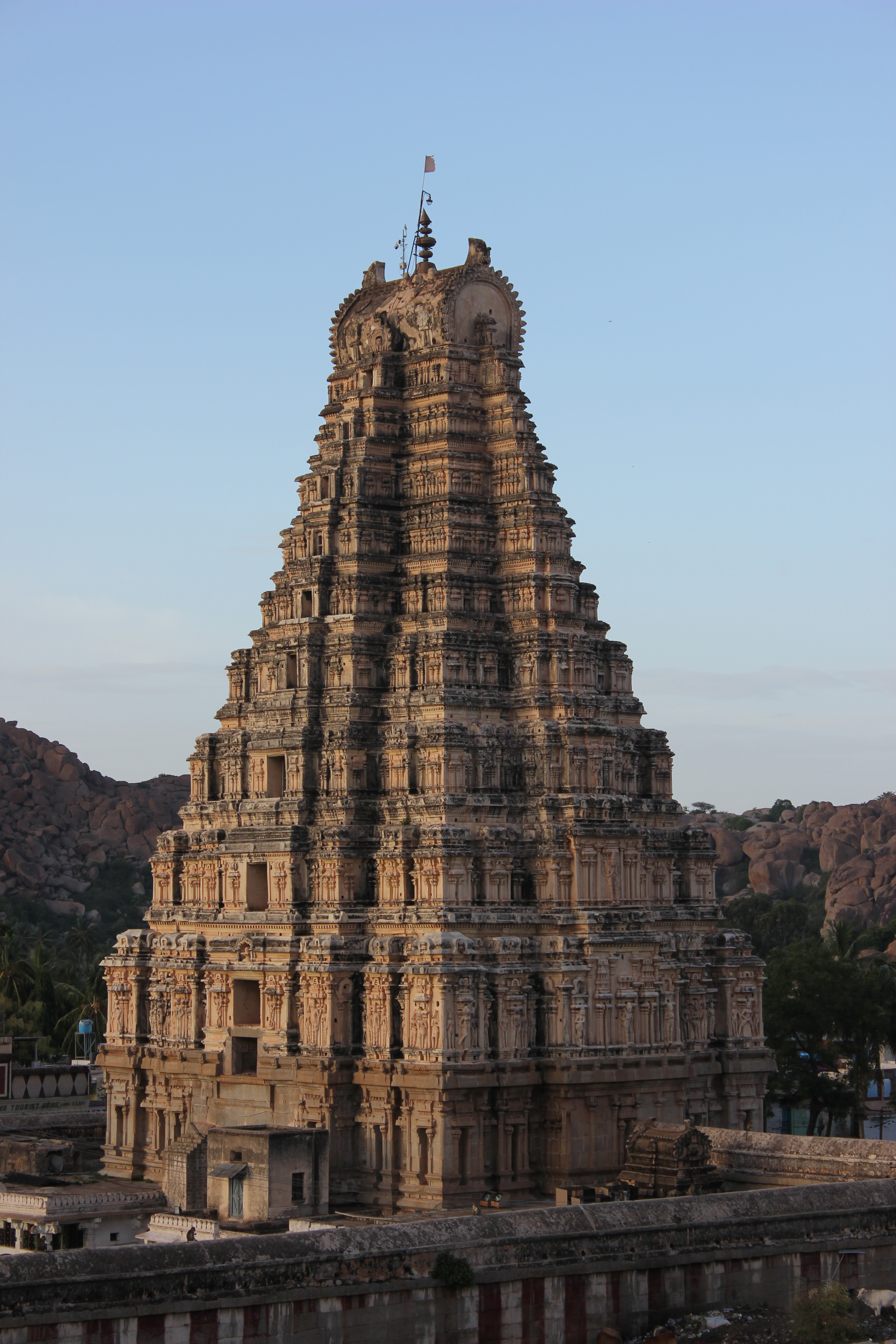 This photograph of the gopura (tower) of the Virupaksha temple was taken by me from the Hemakuta hill temple complex at Hampi, a UNESCO world heritage site in Bellary district, Karnataka state, India. The temple has received patronage and upgrades starting from the 10th century Western Chalukya period to the 16th century Vijayanagara empire period